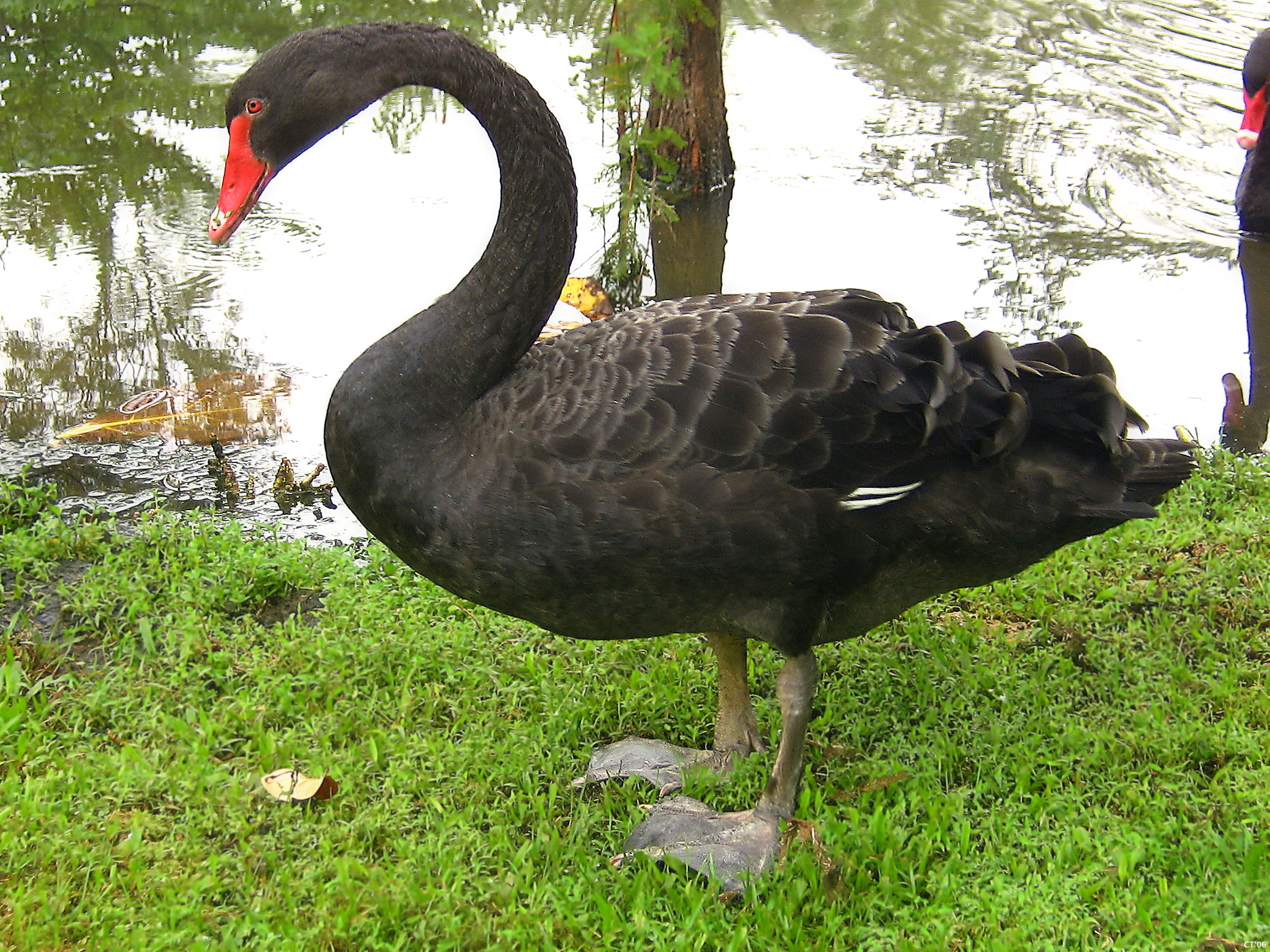 A Black Swan (Cygnus Atratus) in the Singapore Botanical Gardens.